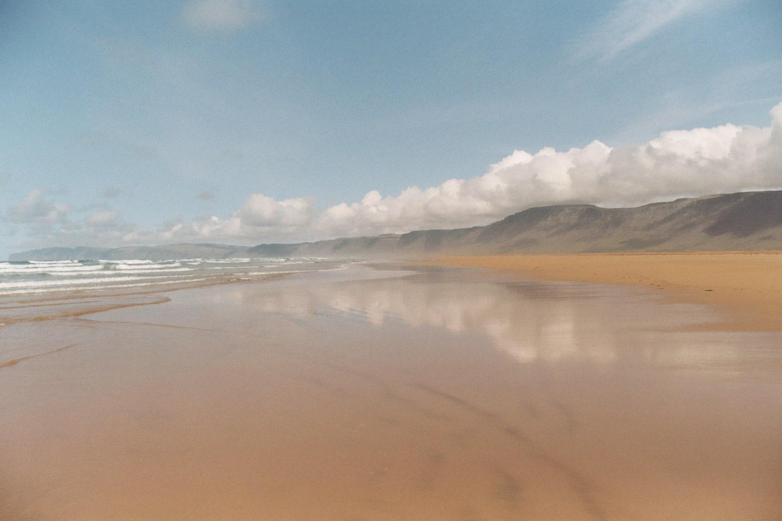 A beach in the Rauðisandur, in Island Author: Johann Dréo (User:Nojhan) Date: 2004, july Notes: I can't remember the name of the beach. Size : 1536 x 1024, digitalized from an argentic film.